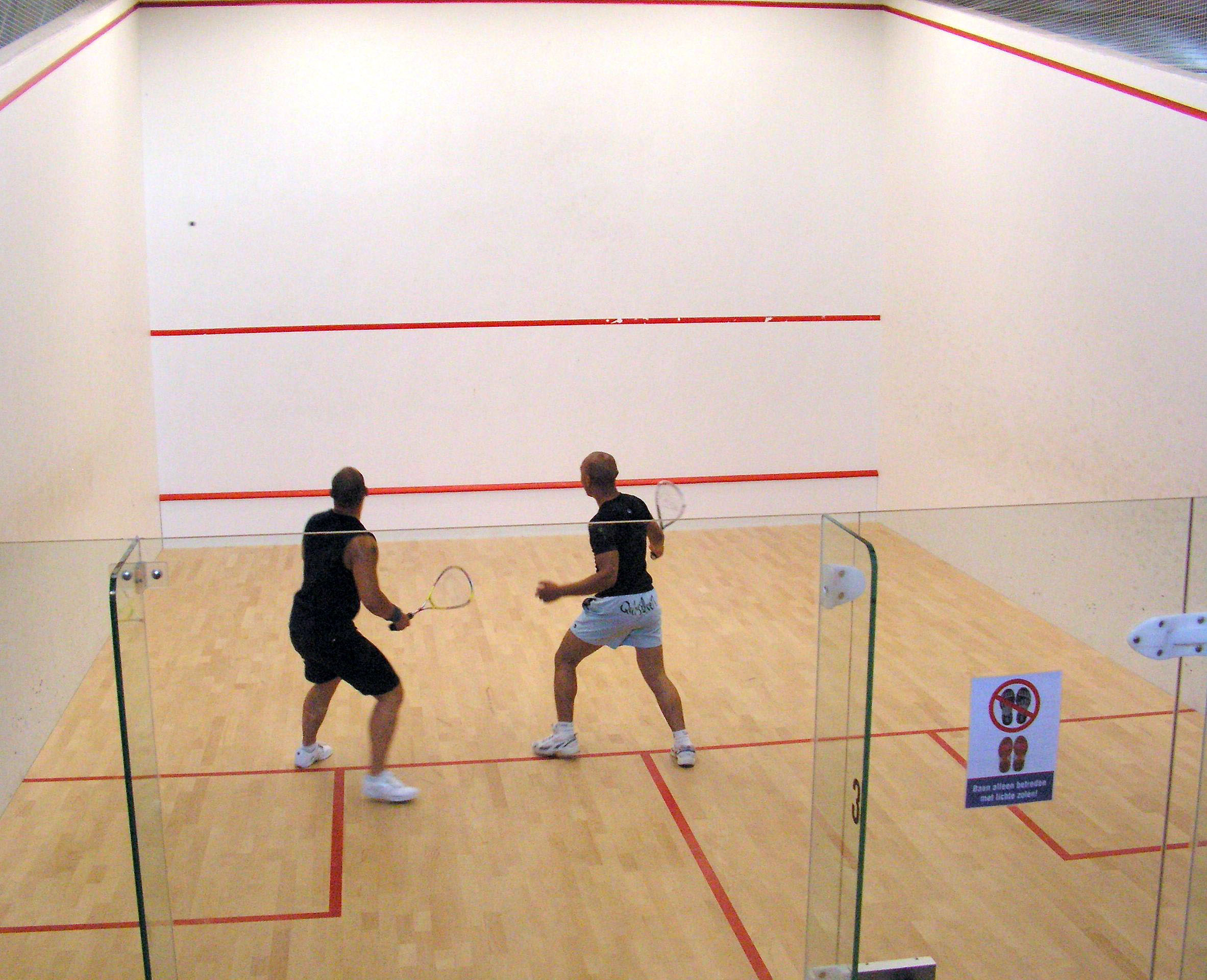 A court for playing squash. Photo taken in The Hague and with permission from the players. Photo by Jens Buurgaard Nielsen